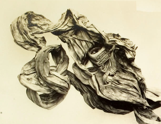 Harry Burton: Tutankhamun tomb photographs: a photographic record in 5 albums containing 490 original photographic prints ; representing the excavations of the tomb of Tutankhamun and its contents. Vol. 4